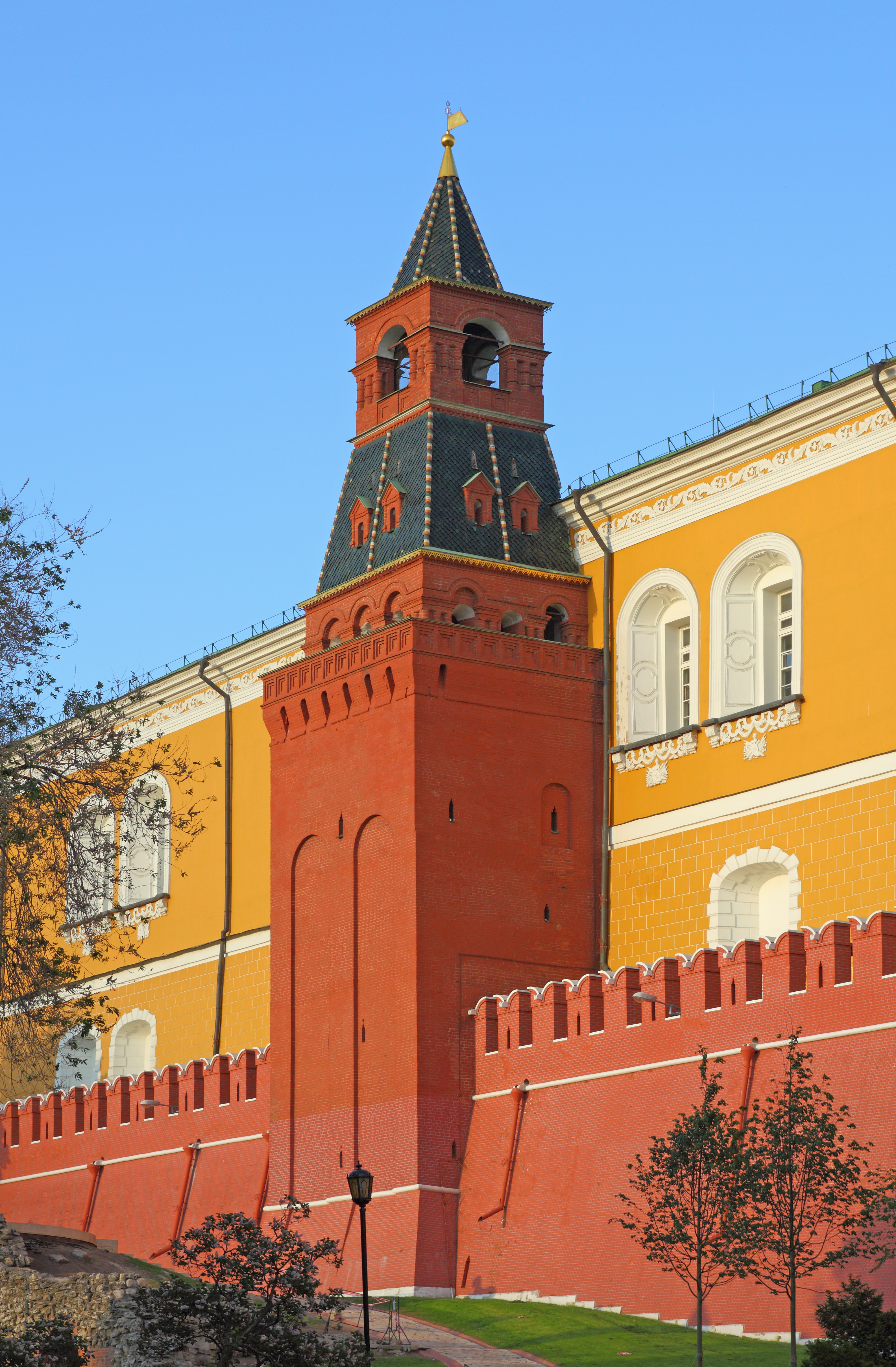 Moscow, Russia. Srednyaya Arsenalnaya (Middle Arsenal) Tower of the Moscow Kremlin.